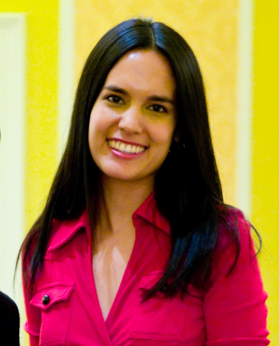 Kristie Lu Stout